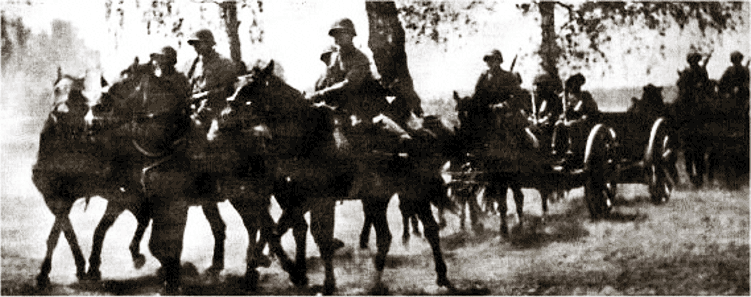 Polish Cavalry in Battle of the Bzura 1939, near Sochaczew.